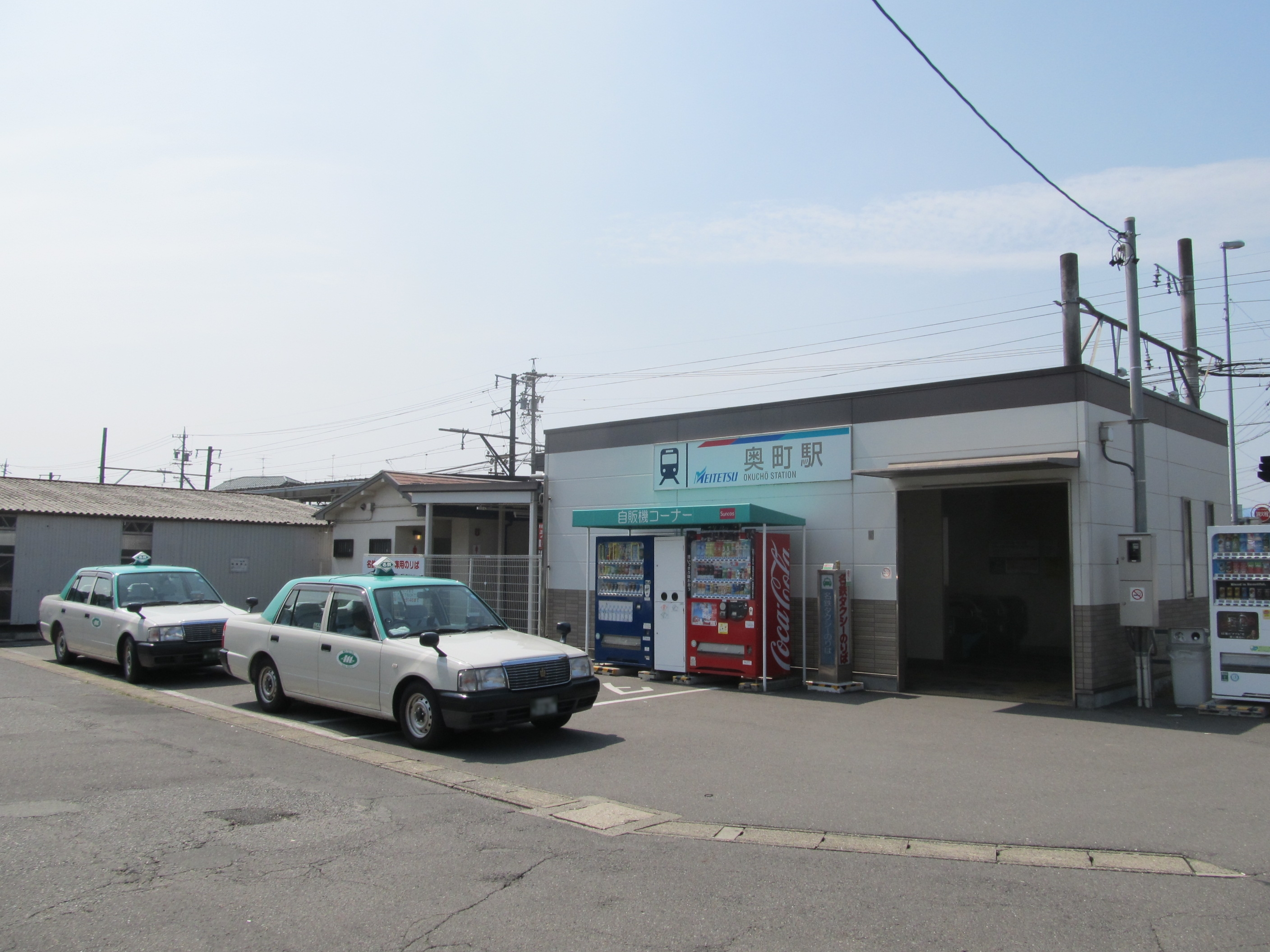 Nagoya Railroad Bisai Line Okuchō Station Building.